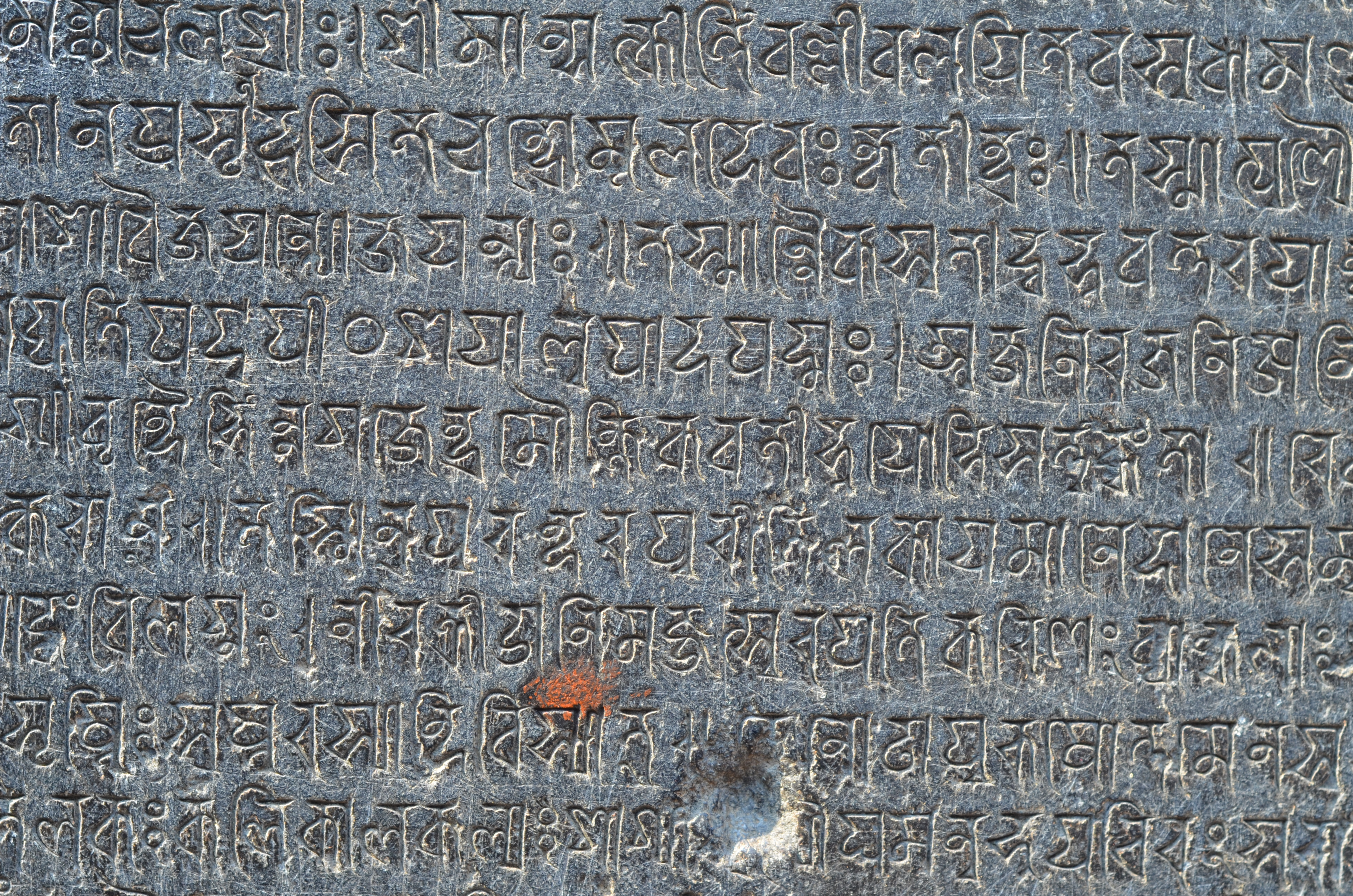 Stone inscription panel installed in a wall at Ananta Basudeba (alternately spelled as Ananta Vasudeva) Temple (13th c.) at Bhubaneswar, Odisha, India. ଓଡ଼ିଆ: ତ୍ରୟୋଦଶ ଶତାବ୍ଦୀରେ ନିର୍ମିତ ଅନନ୍ତ ବାସୁଦେବ ମନ୍ଦିର ପ୍ରାଙ୍ଗଣ ମଧ୍ୟରେ ଥିବା ଶିଳାଲିପି । ଏହା ଓଡ଼ିଶାର ଭୁବନେଶ୍ୱରଠାରେ ସ୍ଥିତ ।